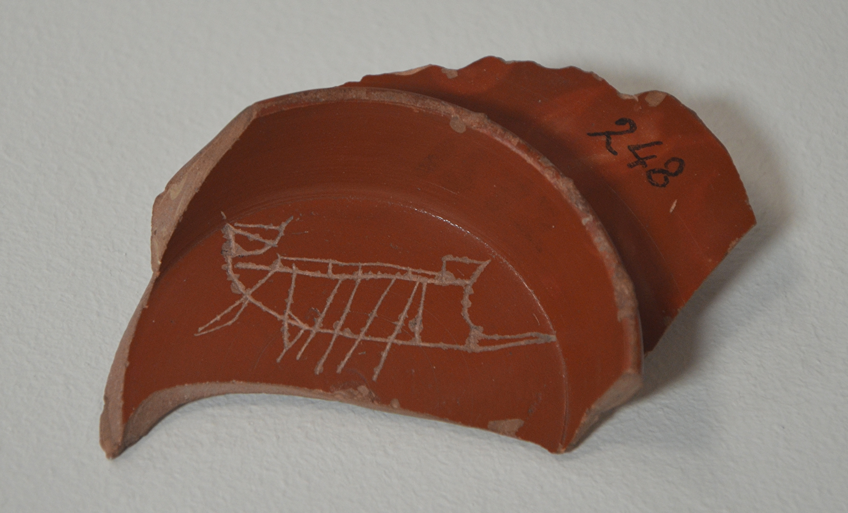 Fragment of a terra sigillata plate with graffito of a Roman warship (liburna), found at the ancient site of Fectio (Vechten), 25-50 AD, Centraal Museum, Utrecht